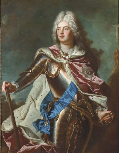 Portrait of Friedrich August II of Saxony (1696-1763)